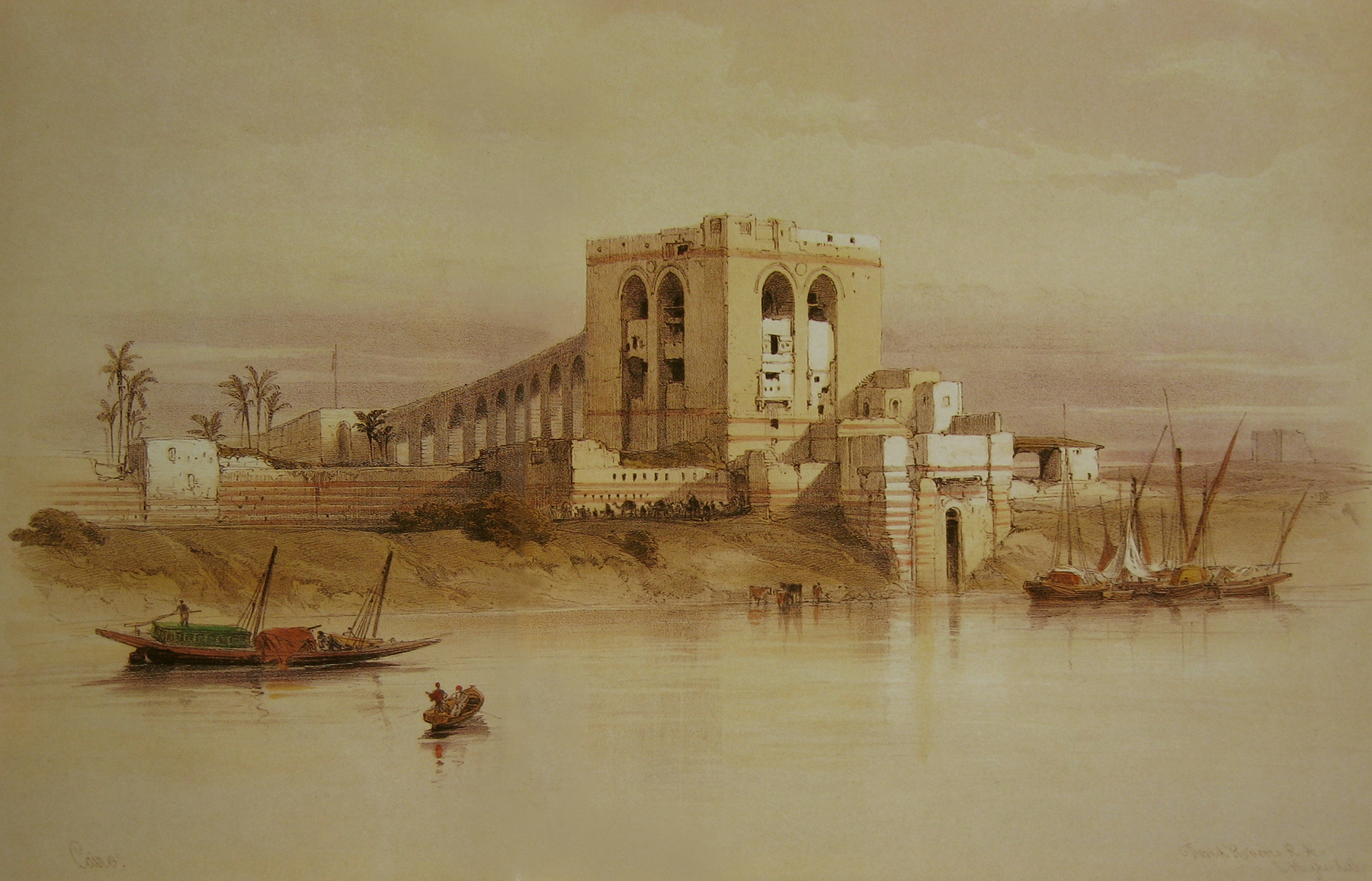 The Aqueduct of the Nile, from the Island of Rhoda, Cairo